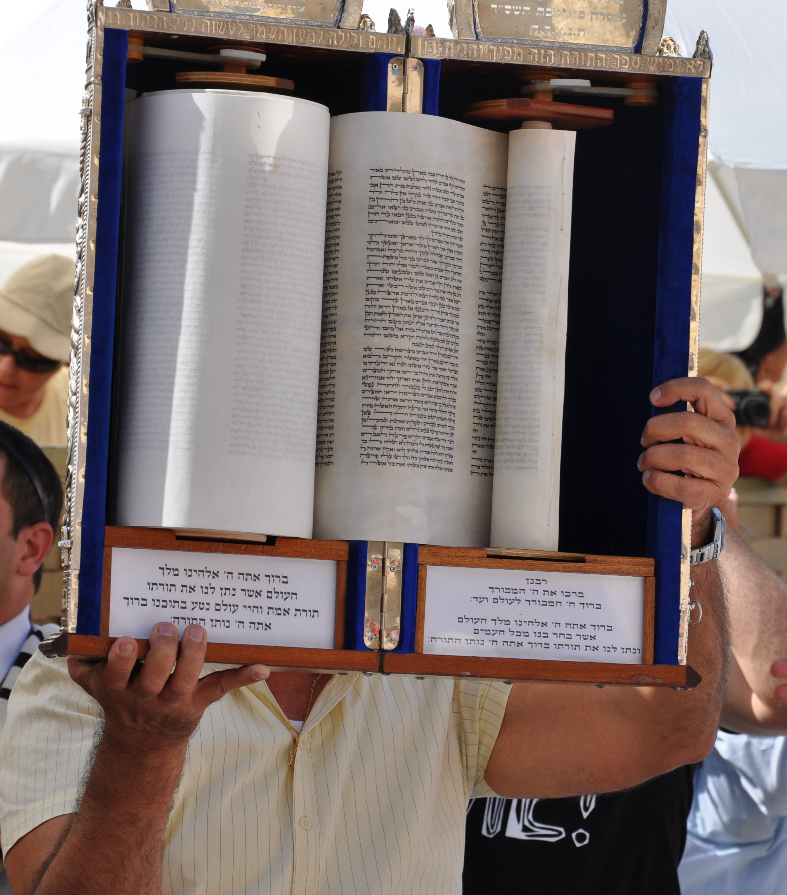 Western wall Tora scroll